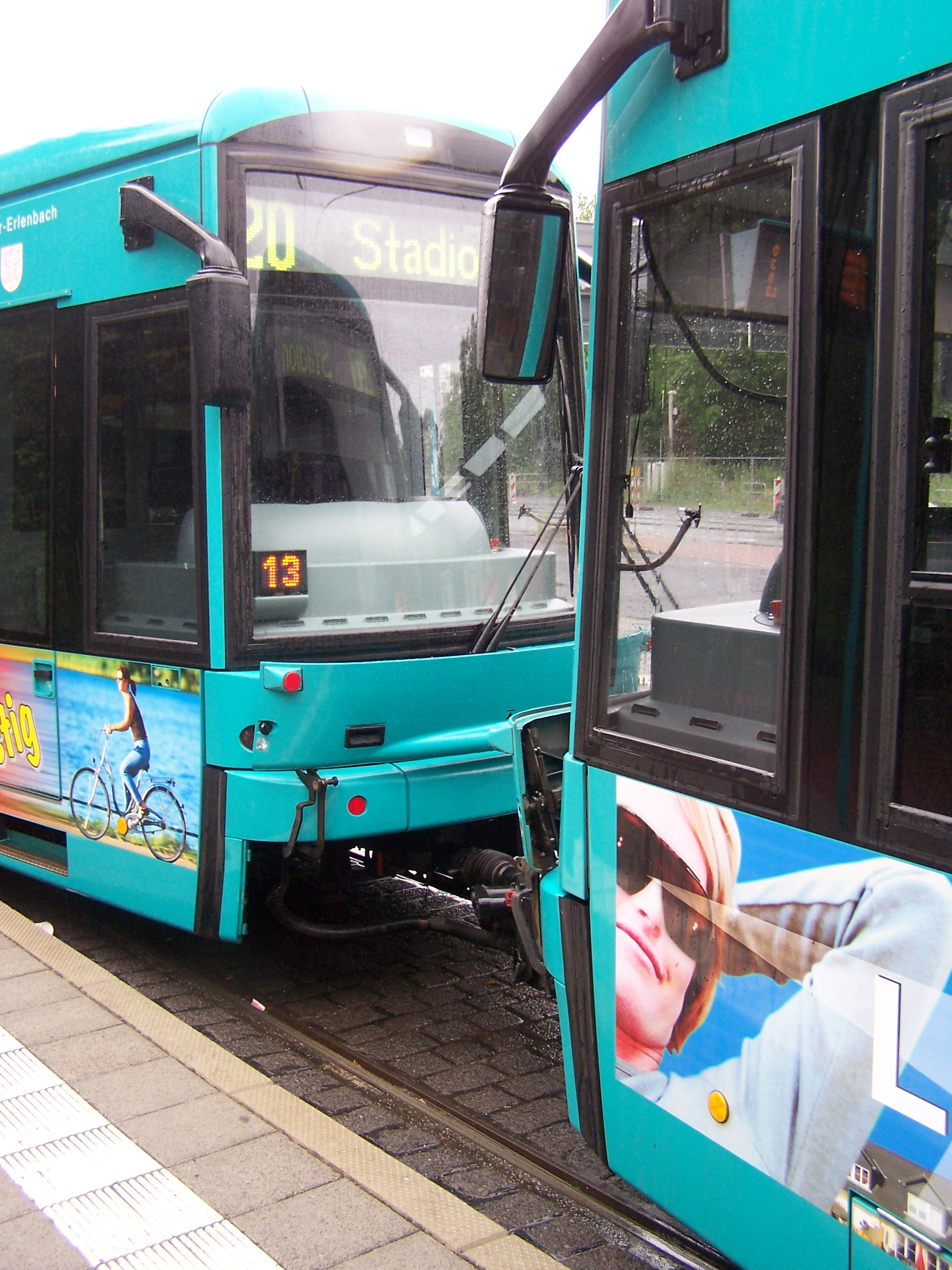 Tramway at Frankfurt am Main: 2 x Tram S-Type at Oberforsthaus, May 2007